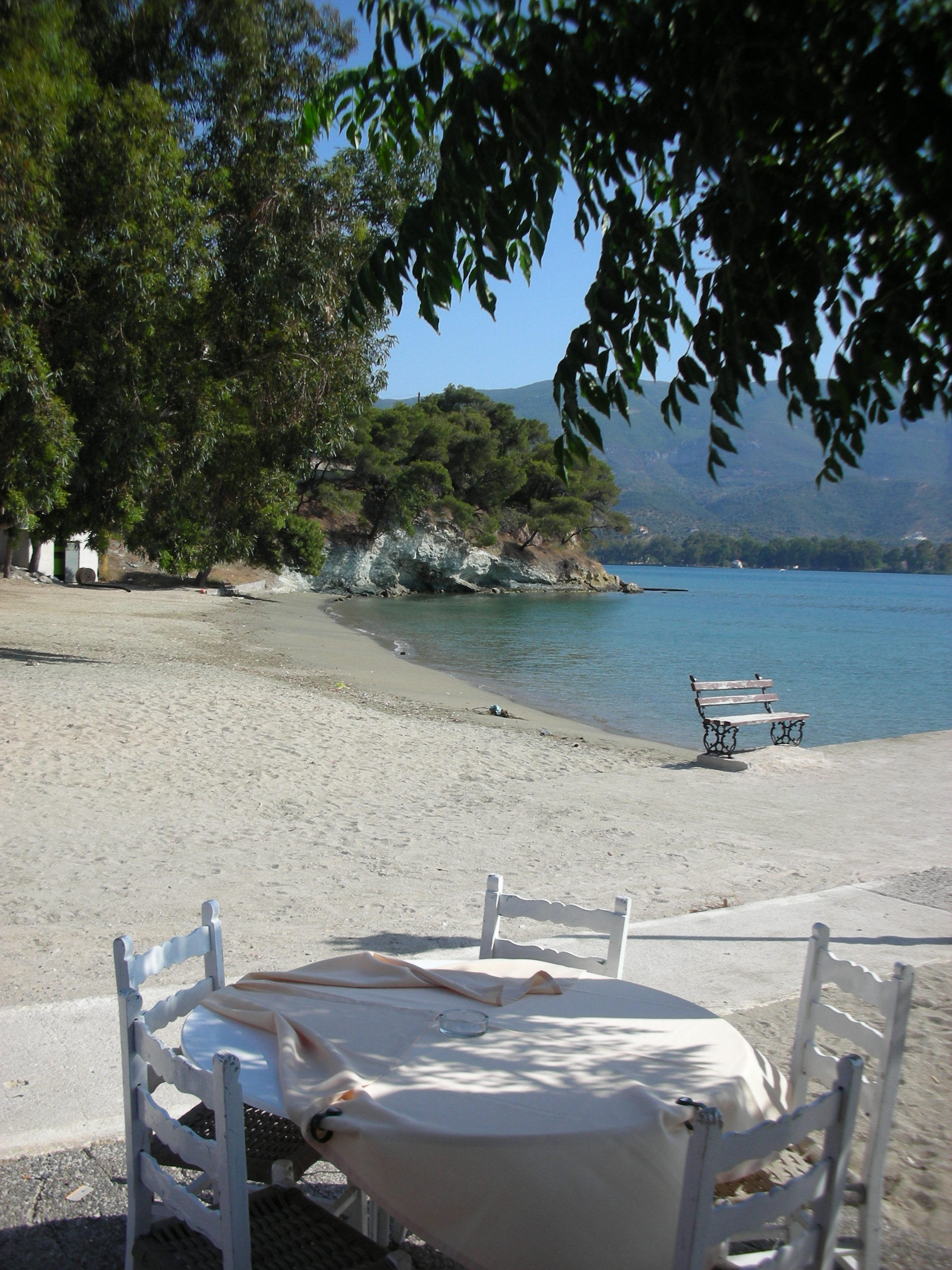 Poros, Greece.